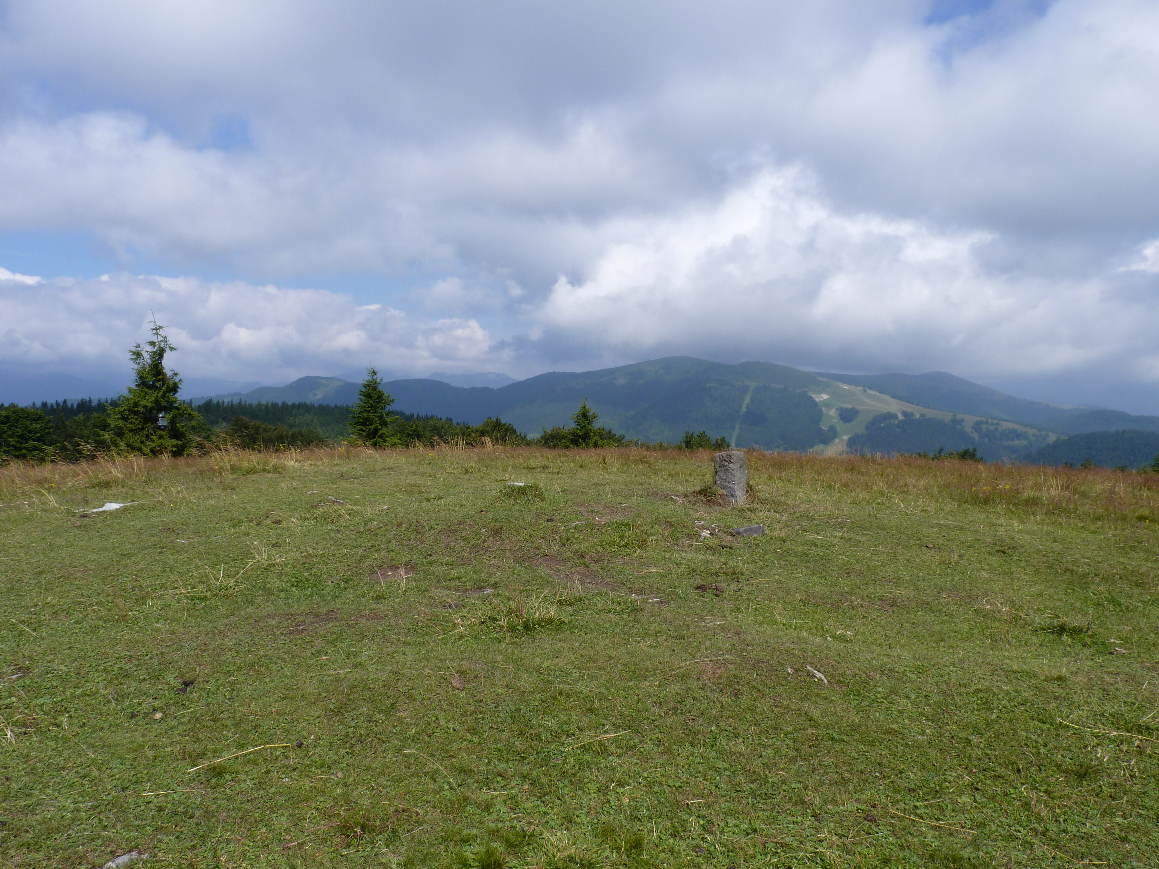 Top of Kečka. Low Tatras, Slovakia